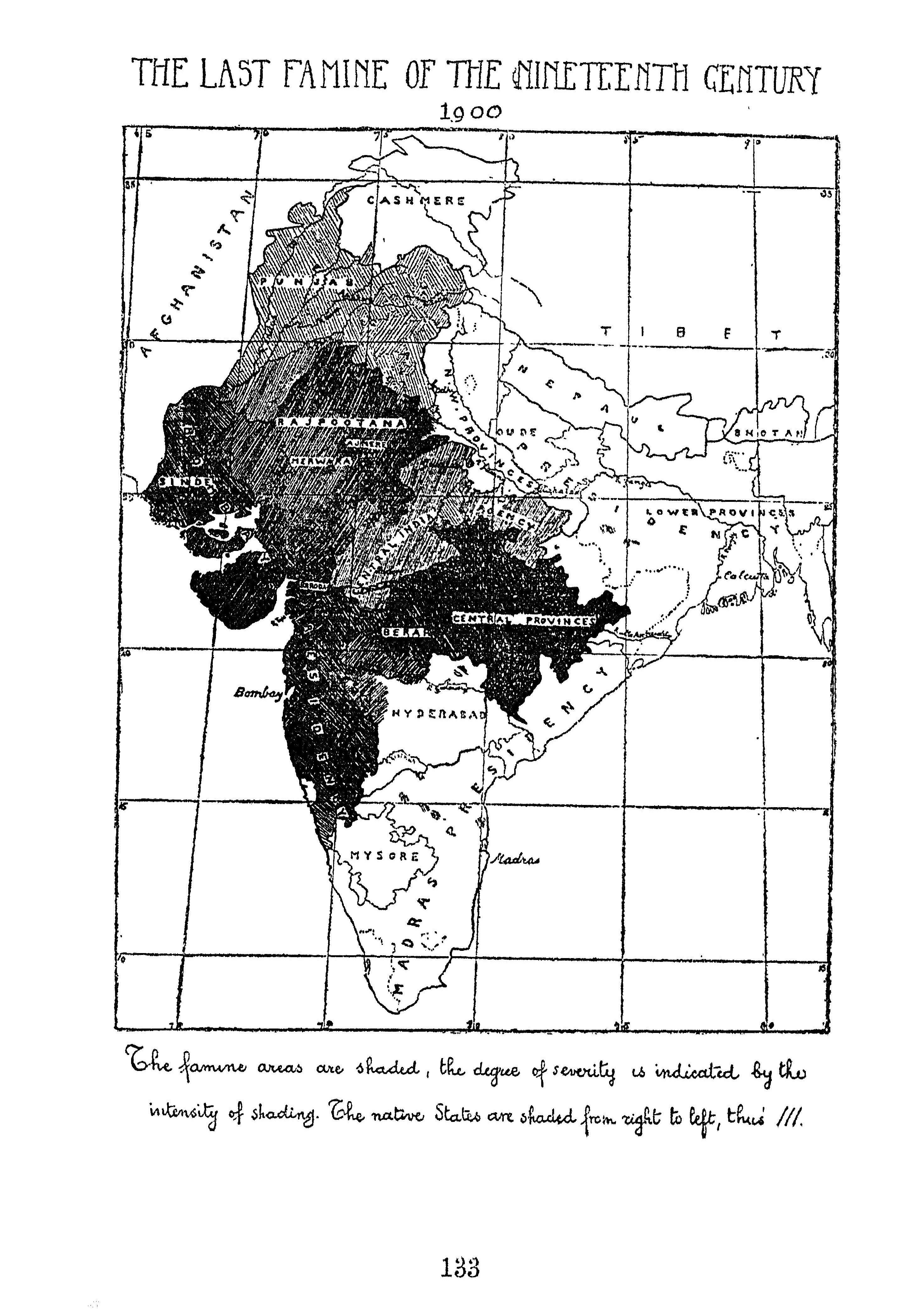 A map of the Indian famine of 1899–1900 from William Digby's Prosperous British India, London, 1901